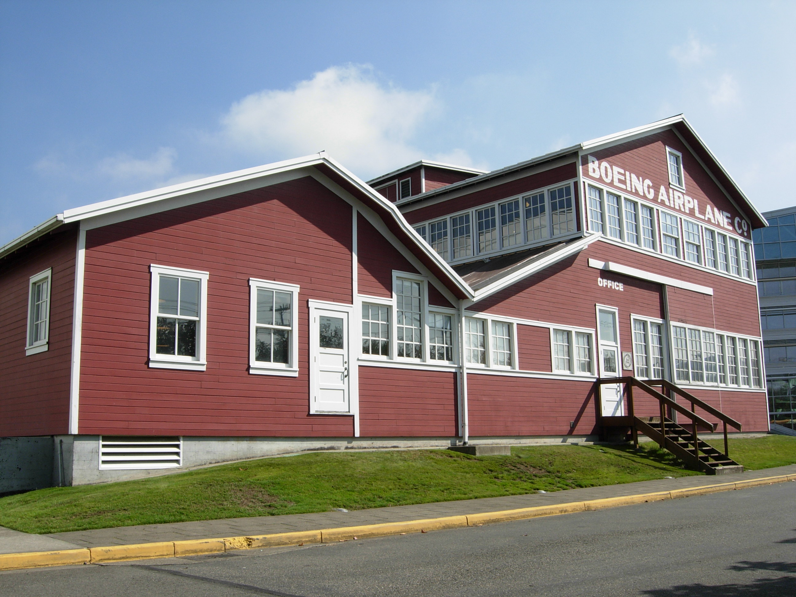 Building No. 105, Boeing Airplane Company, at the Museum of Flight, Tukwila, Washington